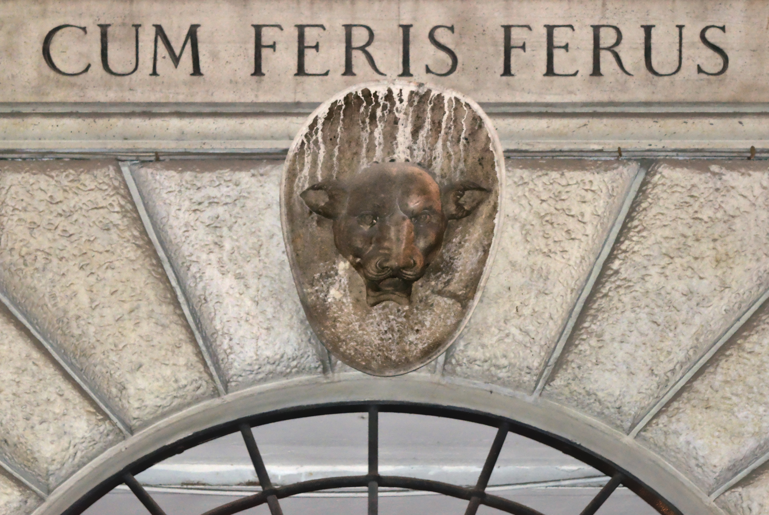 Motto above an entrance to the Palazzo del Bufalo.